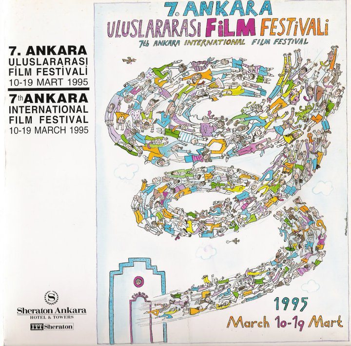 7. ANKARA INTERNATIONAL FILM FESTIVAL